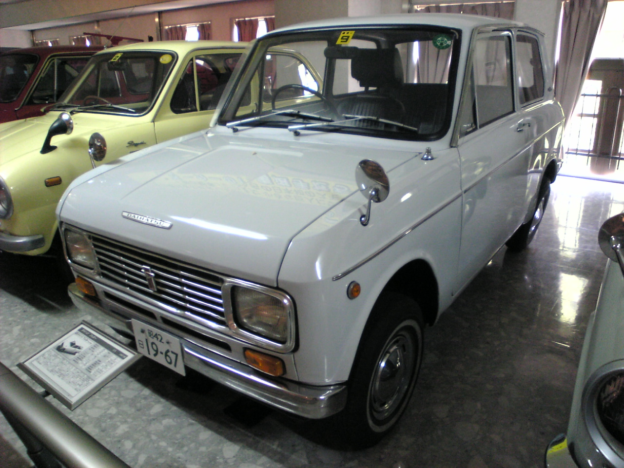 L37-series Daihatsu Fellow